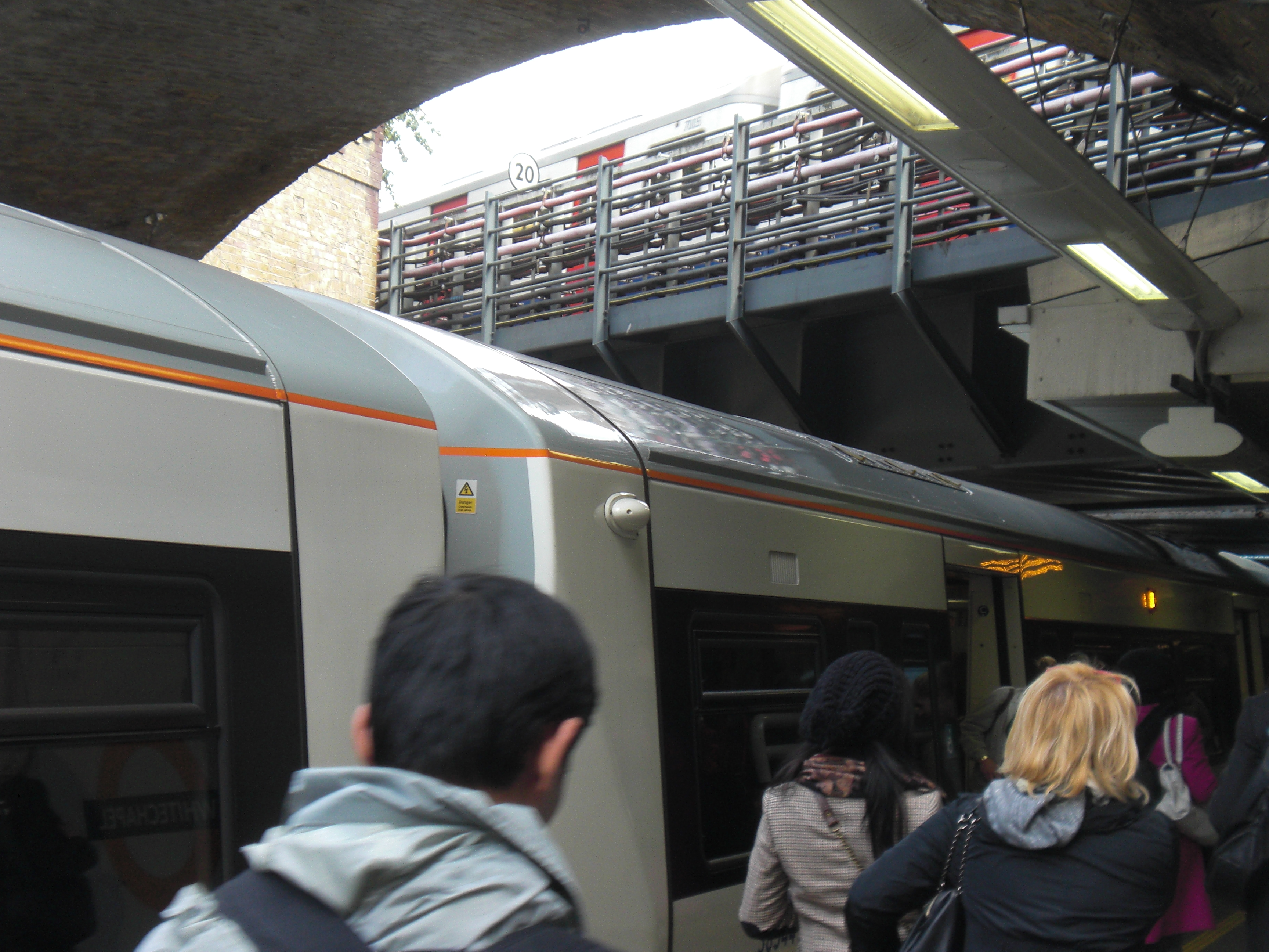 Eastbound underground leaving above northbound Overground